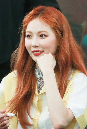 HyunA at a fansign on May 12, 2017